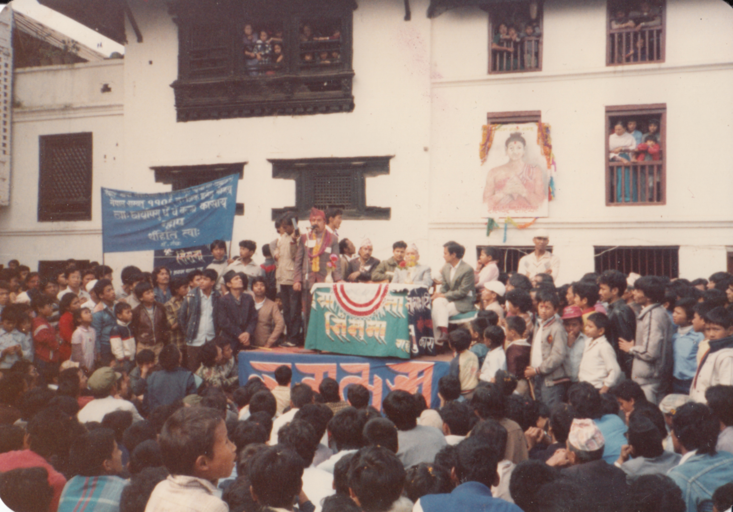 Padma Ratna Tuladhar speaking at Nepal Sambat 1107 New Year's Day function (1986) at Kathmandu Durbar Square.